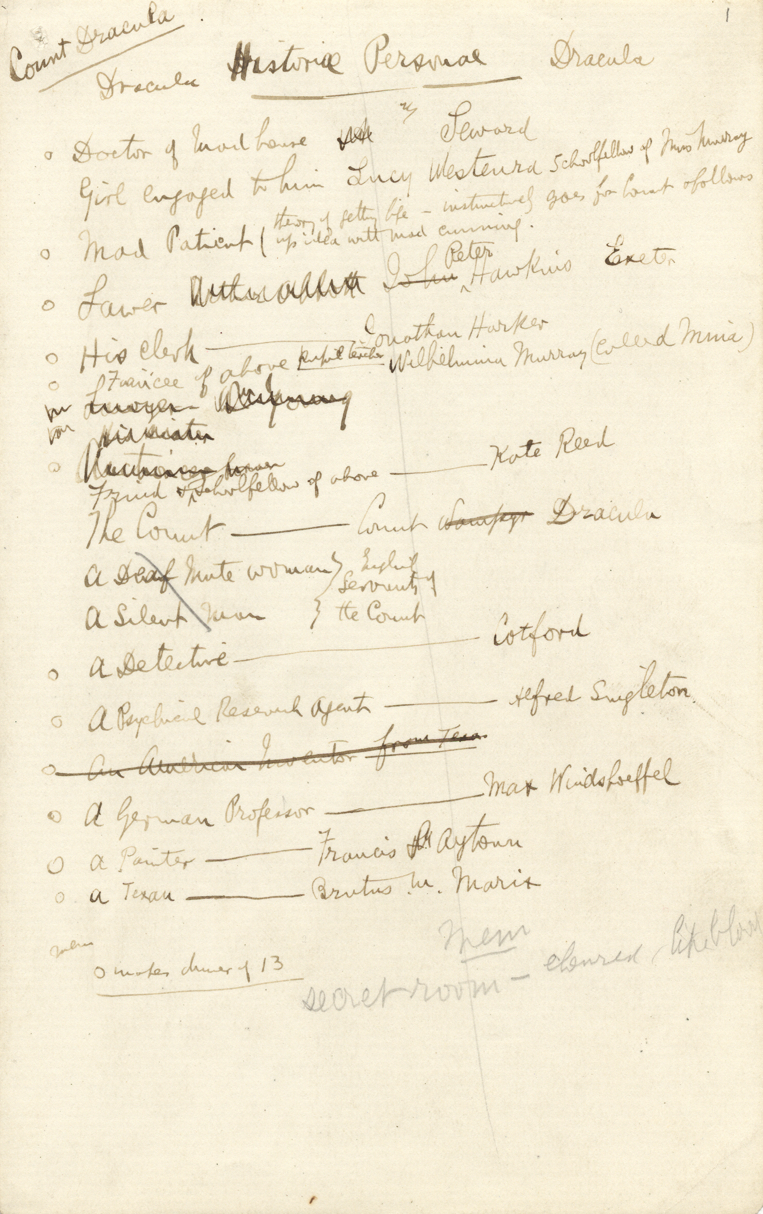 Bram Stoker's (1847-1912) Notes on the personal for his novel Dracula.